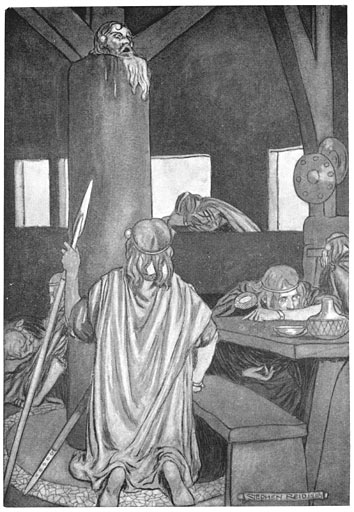 "The head still went on crying and exhorting" (Cúchulainn's father Súaltam)